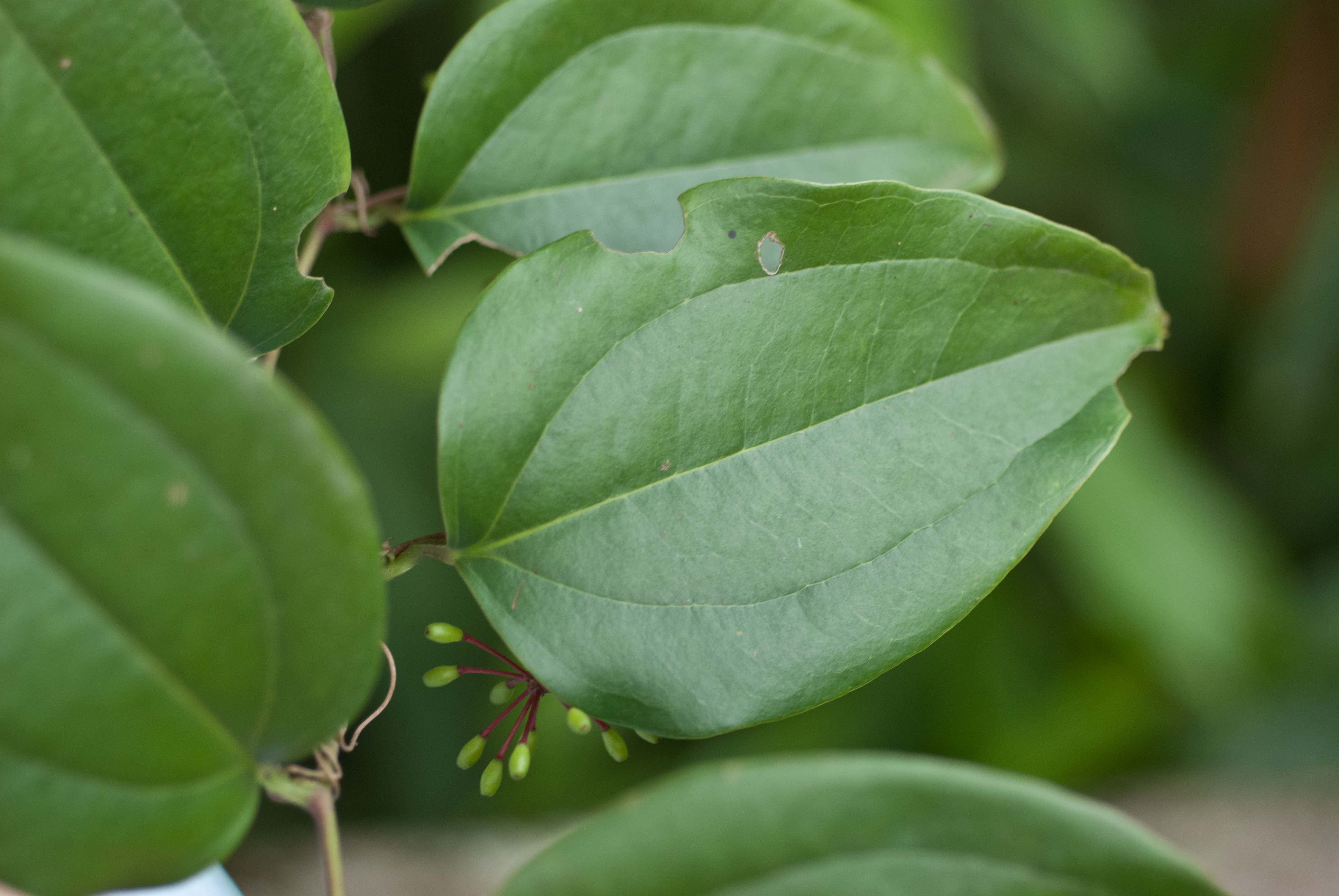 Smilax bracteata.